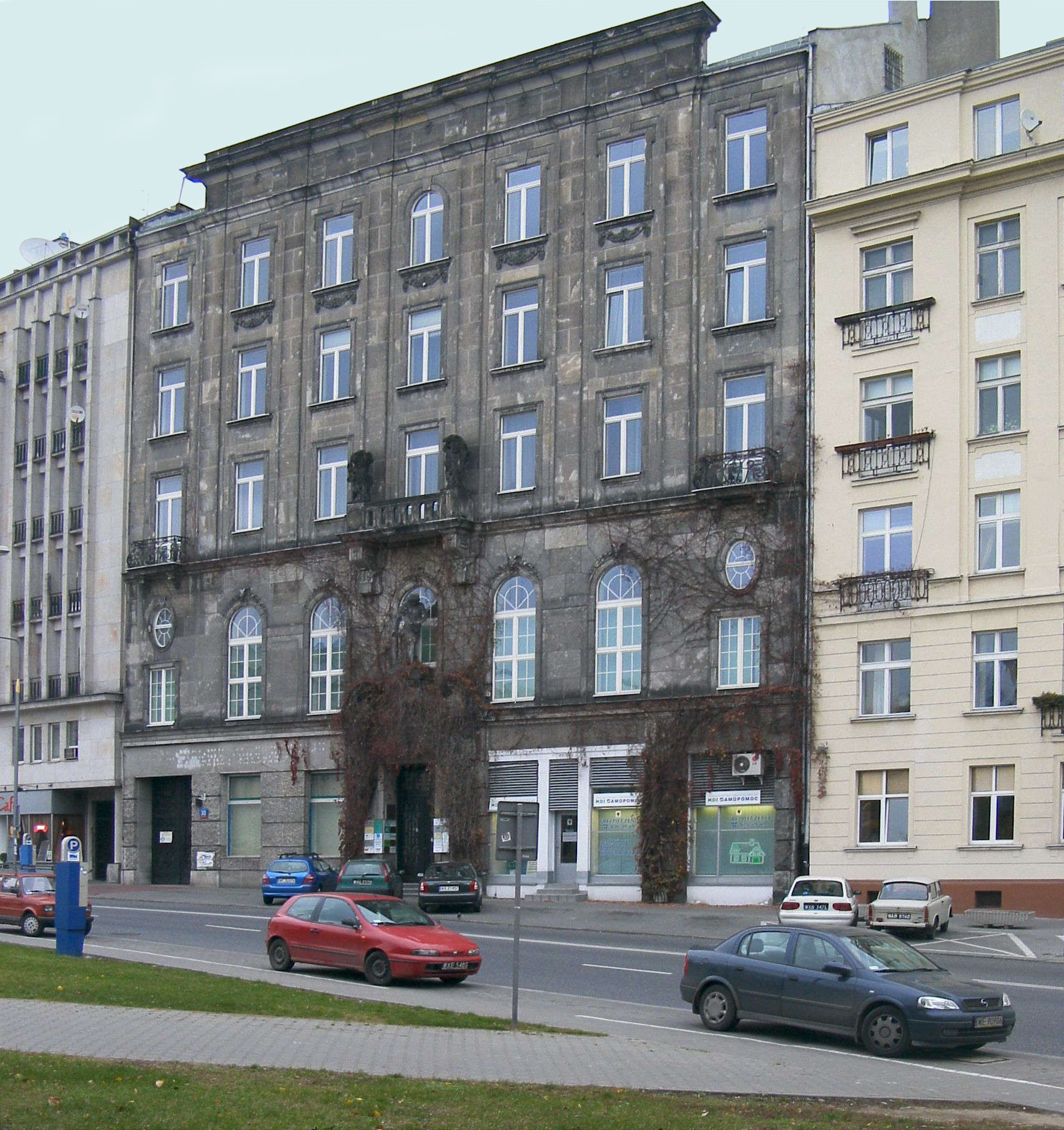 Mikołaja Kopernika Street in Warsaw